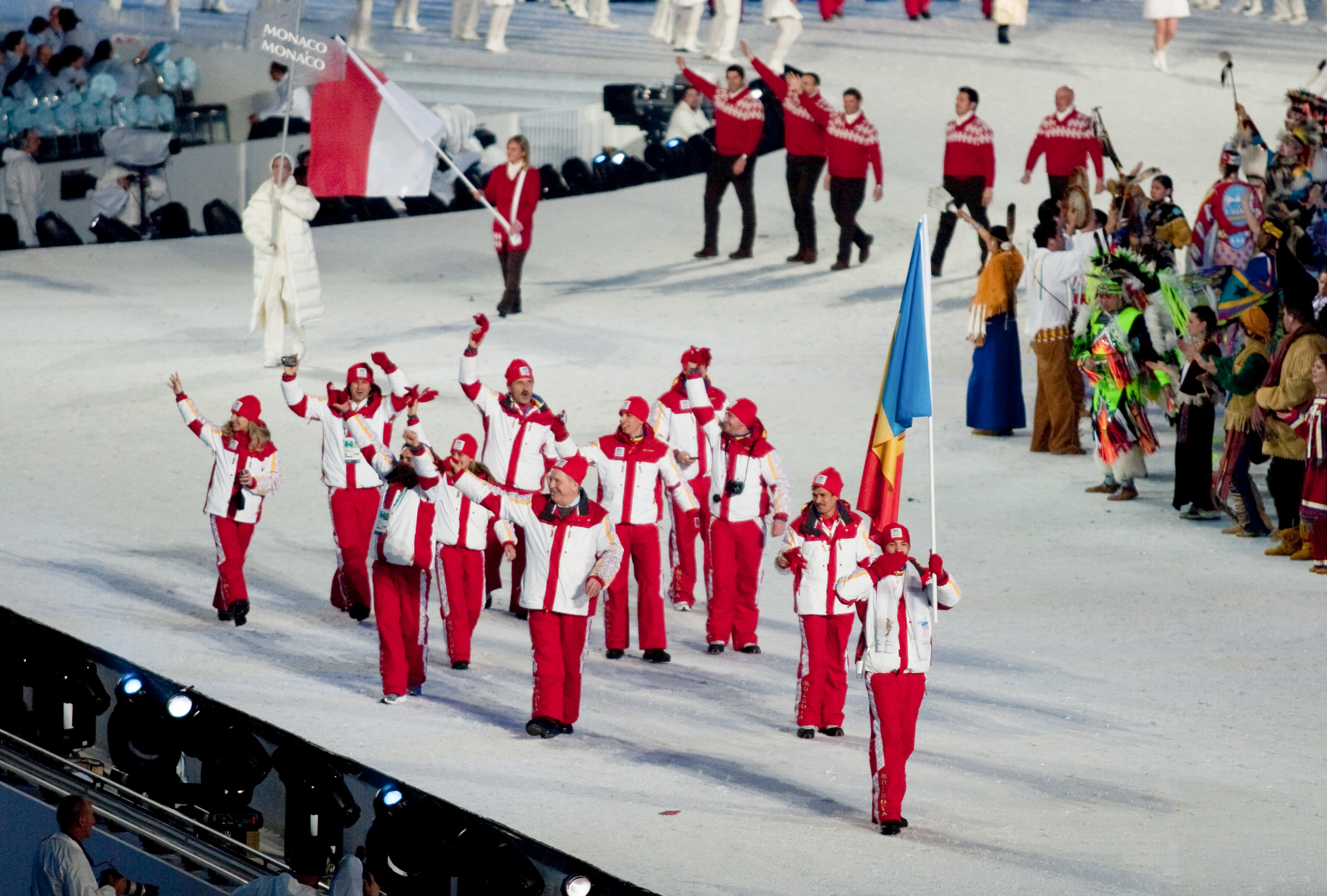 The athletes from Moldova entering the stadium at the opening ceremonies of the 2010 Winter Olympics. Behind them, we can also see the athletes of Monaco.